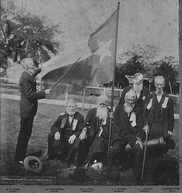 Last reunion of Veterans of the 1836 Army of the Republic of Texas, held April 21, 1906 at Goliad